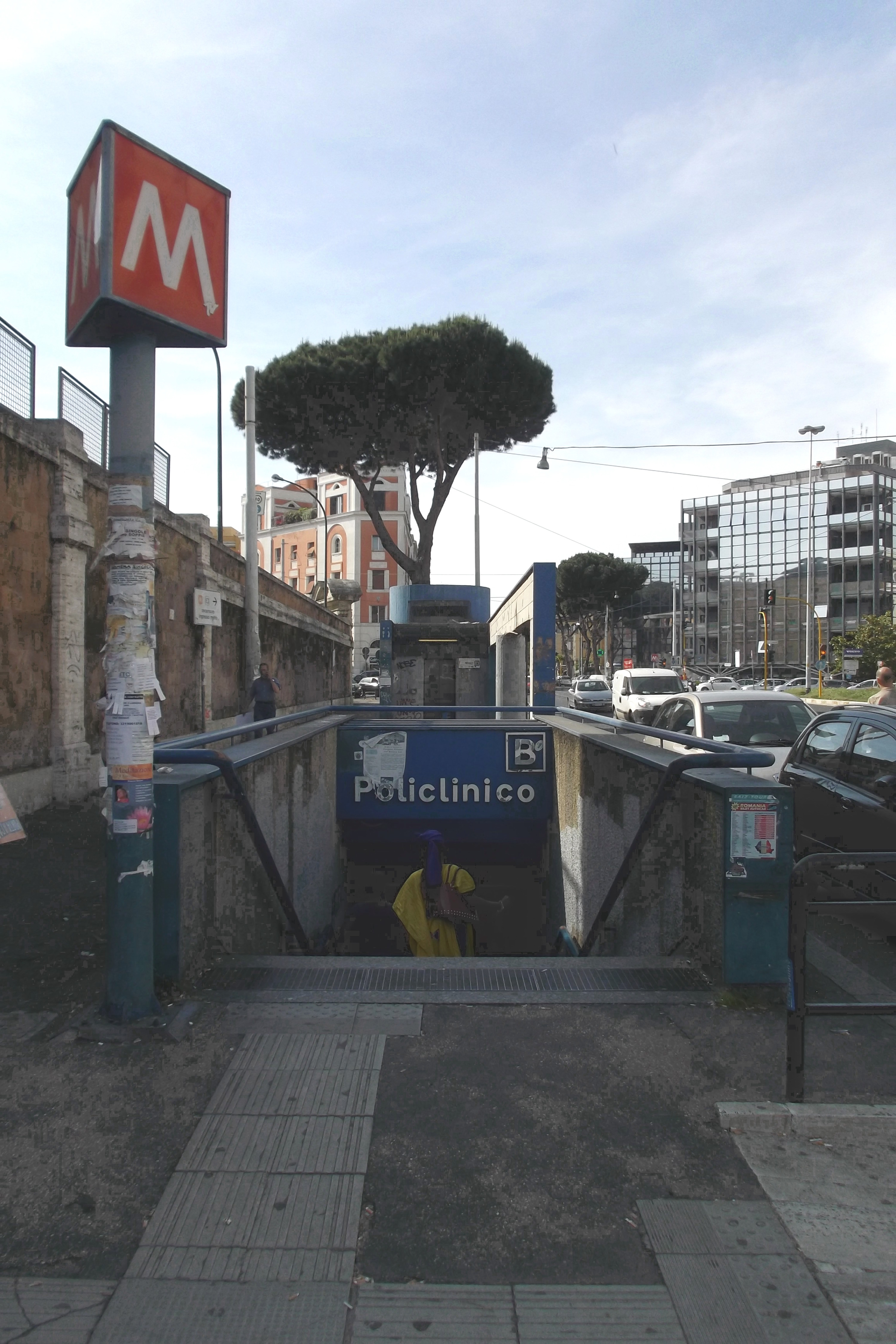 Street entrance of Policlinico Metro B station in Rome